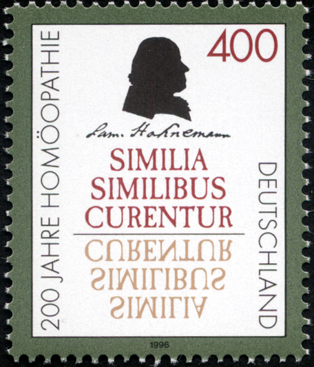 Stamp from Deutsche Post AG from 1996, 200th anniversary of homeopathy, Samuel Hahnemann